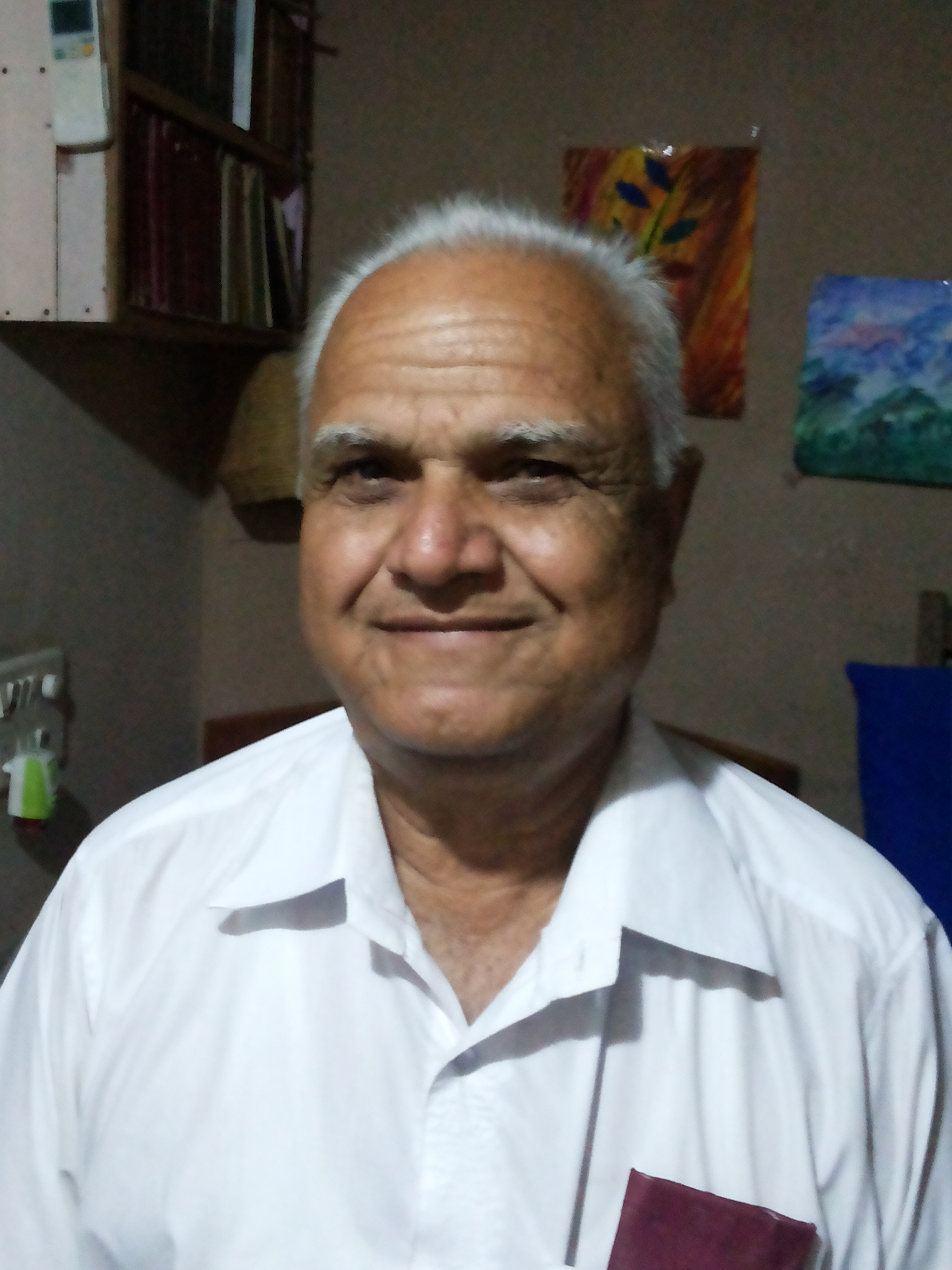 प्रा. मा. रा. लामखडे